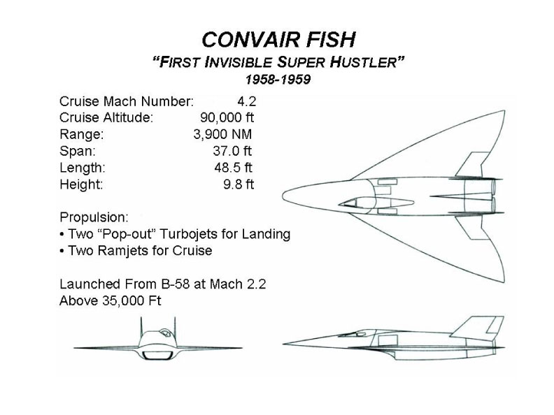 Desing of Convair Fish 1958/59